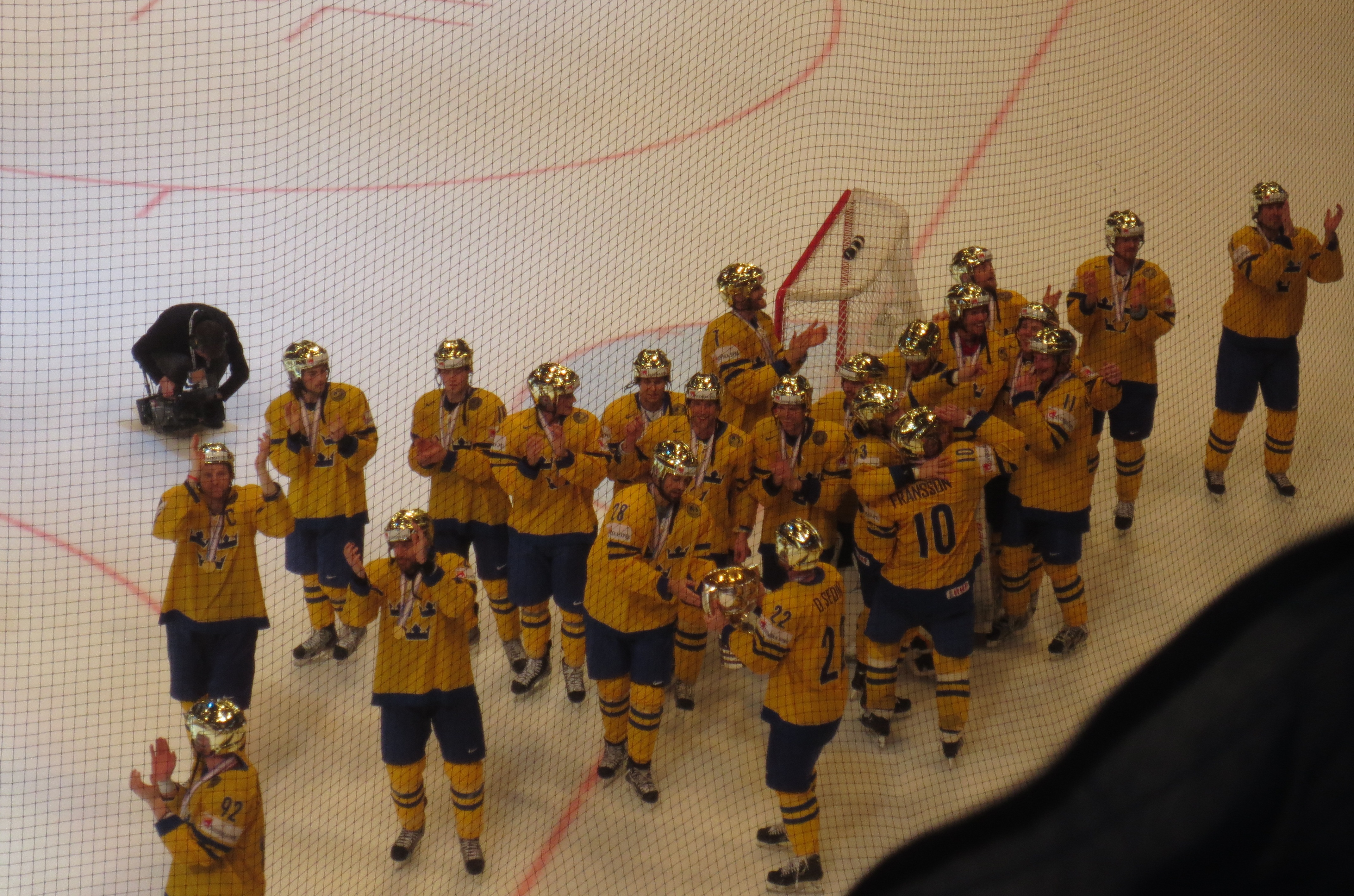 Swedish players with their gold medals and the cup after the 2013 IIHF World Championship Final.